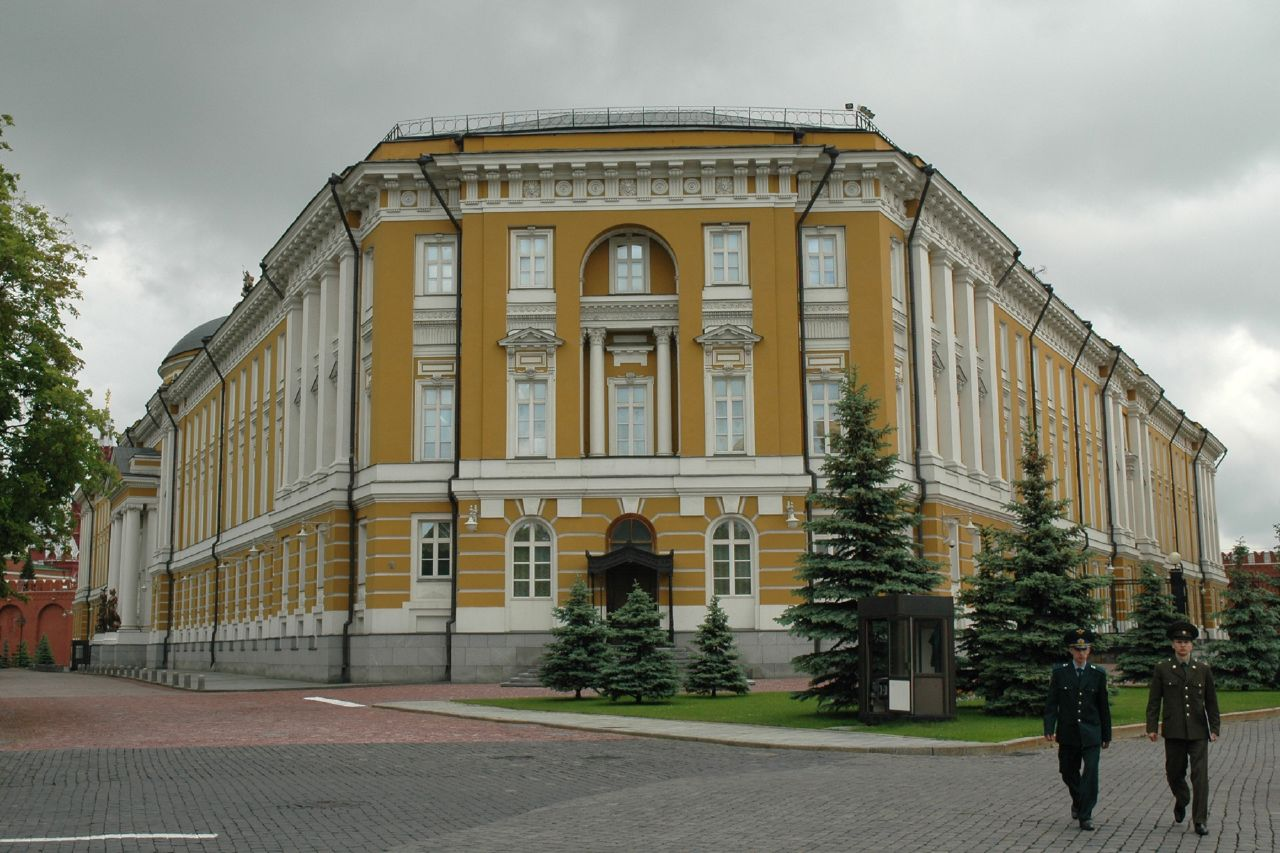 Senate building, Moscow Kremlin